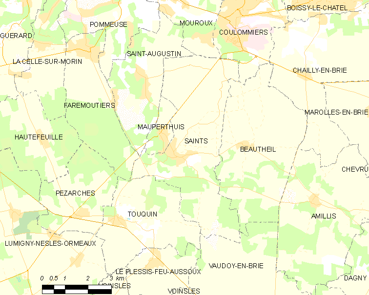 Map of French municipality Saints